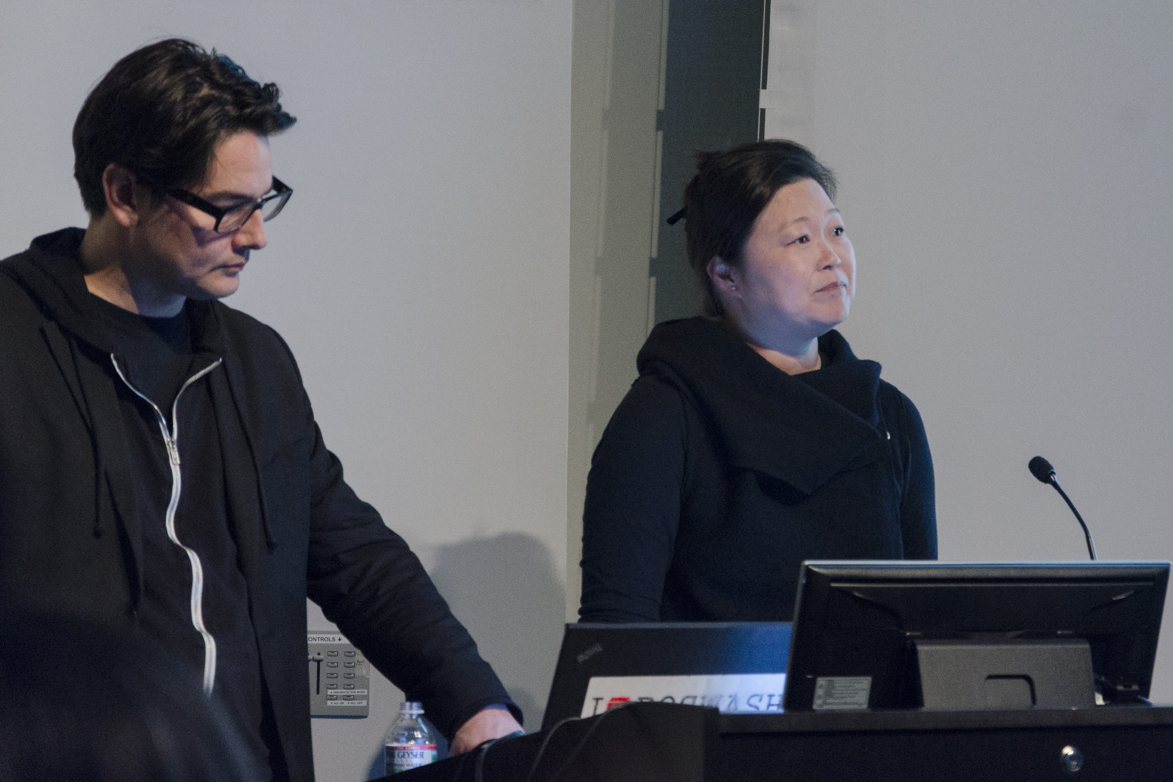 Monday, October 19, 2015 6:30pm. Wood Auditorium. Response by Eric Bunge. Boston-based architects Eric Höweler and Meejin Yoon present the work of their multidisciplinary practice, “operating in the space between architecture, art, and landscape,” and their conviction in “an embodied experience of architecture, seeing media as material and its effects as palpable elements of architectural speculation.” Photography by Ranitri Weerasuriya.